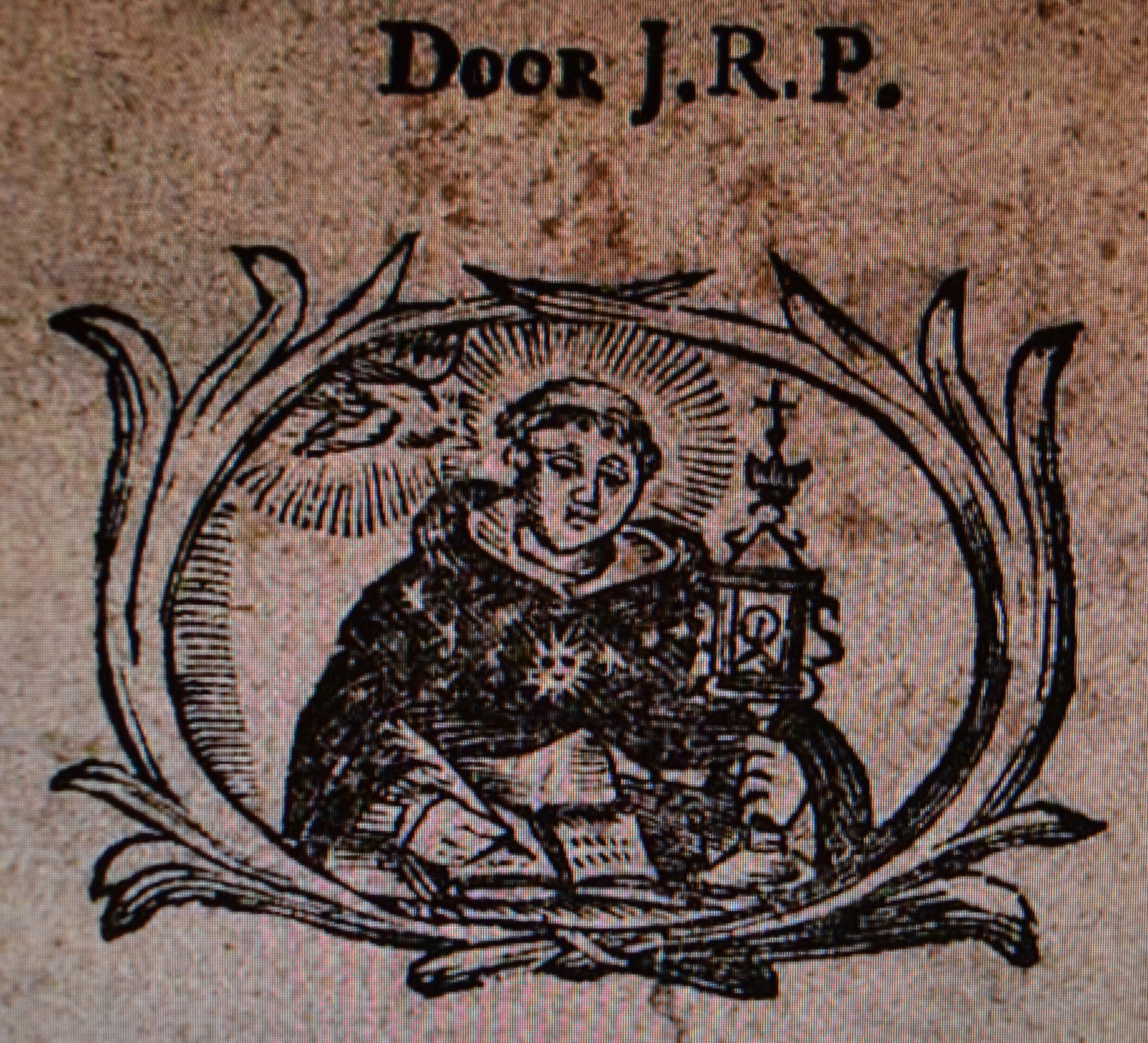 Front cover of book "Aenleydinge tot de deught van penitentie" published in 1673